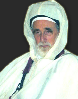 Shaykh Abdalqadir as-Sufi, Shaykh of Instruction of the Qadiri-Shadhili-Darqawi tariqa and founder of the Murabitun Worldwide Movement.